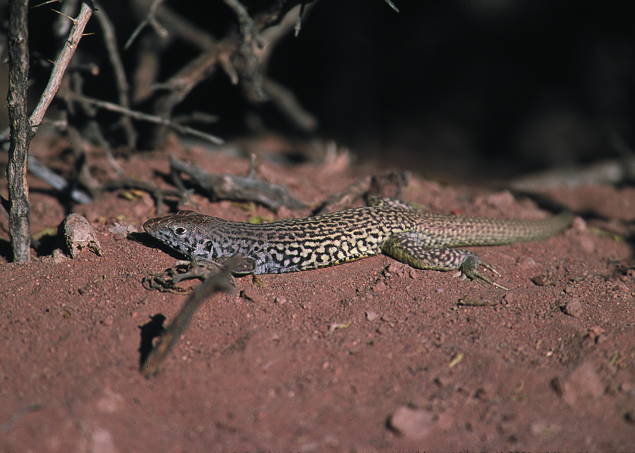 Checkered whiptail Lizard in wildlife habitat area in southern New Mexico.